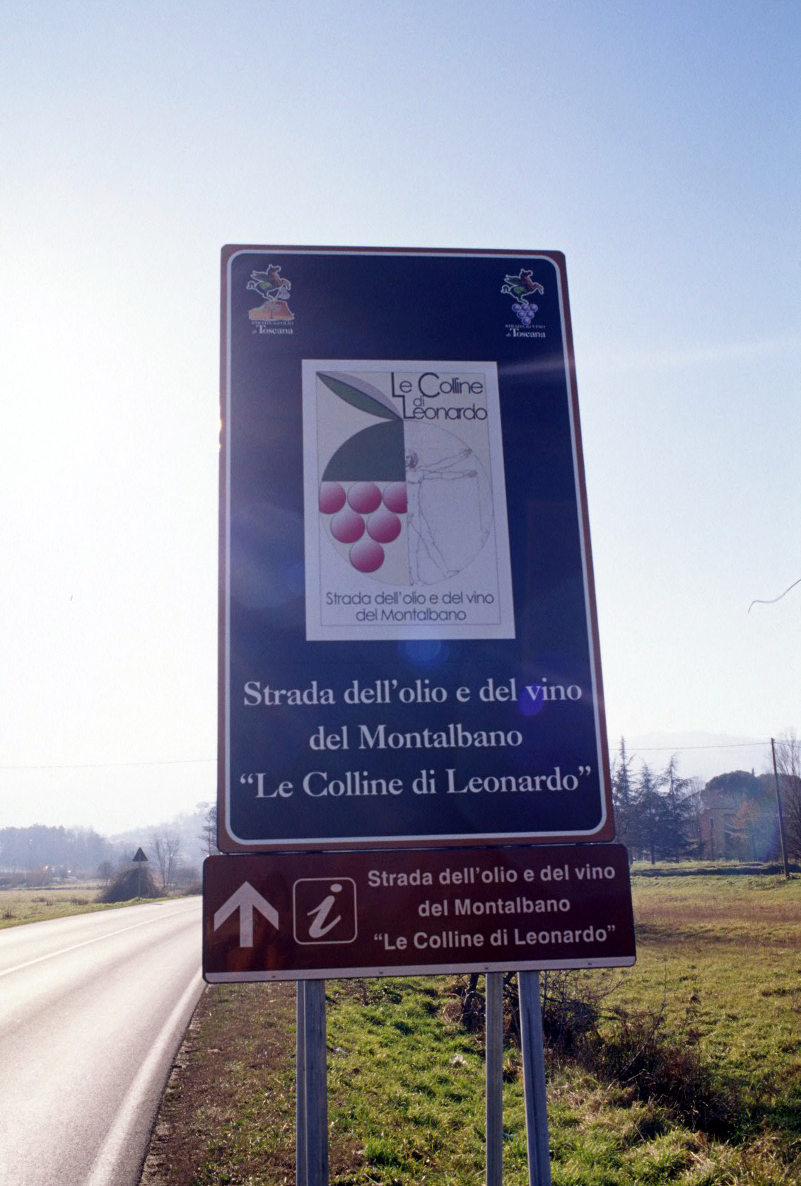 Strada dell'olio sign informing a kind of gastronomical route in Italy that crosses a territory rich of traditional products